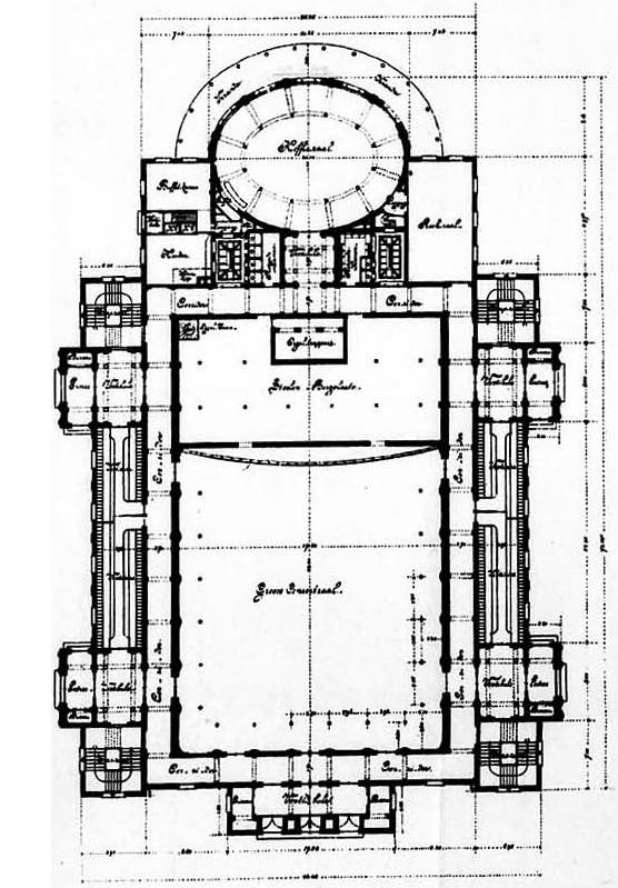 Concertgebouw, Amsterdam, plan ground floor.